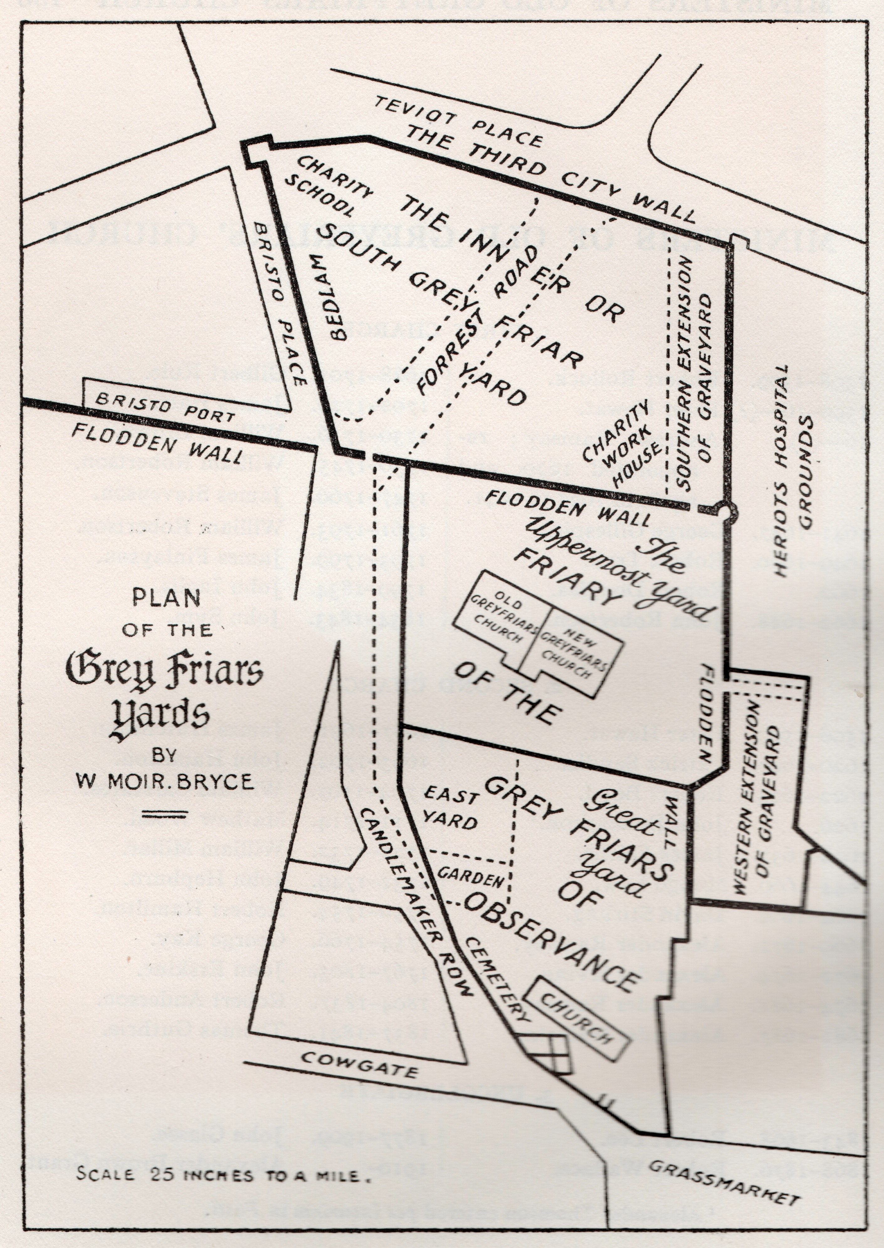 Map by W. Moir Bryce showing the historical development of Greyfriars Kirk and Kirkyard, Edinburgh.